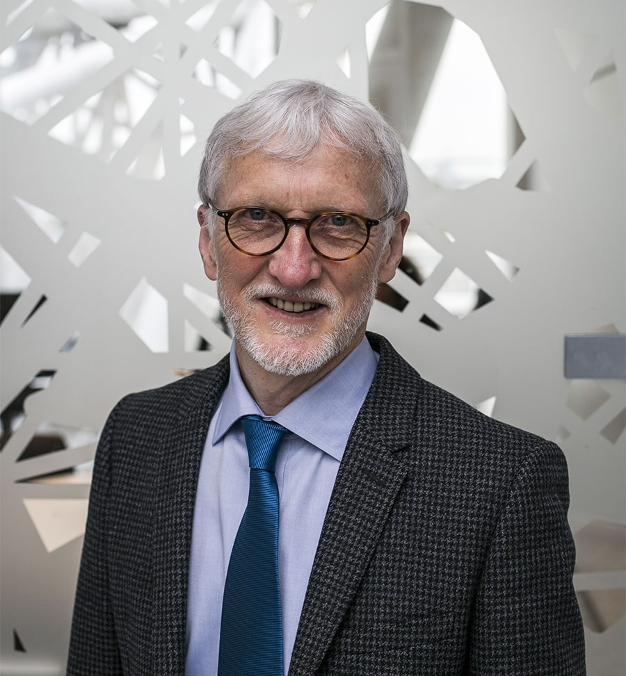 Portrait of Iain Mattaj